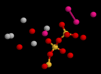 Tri-dimensional crystal structure of the jennite mineral, a calcium silicate hydrate (CSH) found in hydrated cement paste